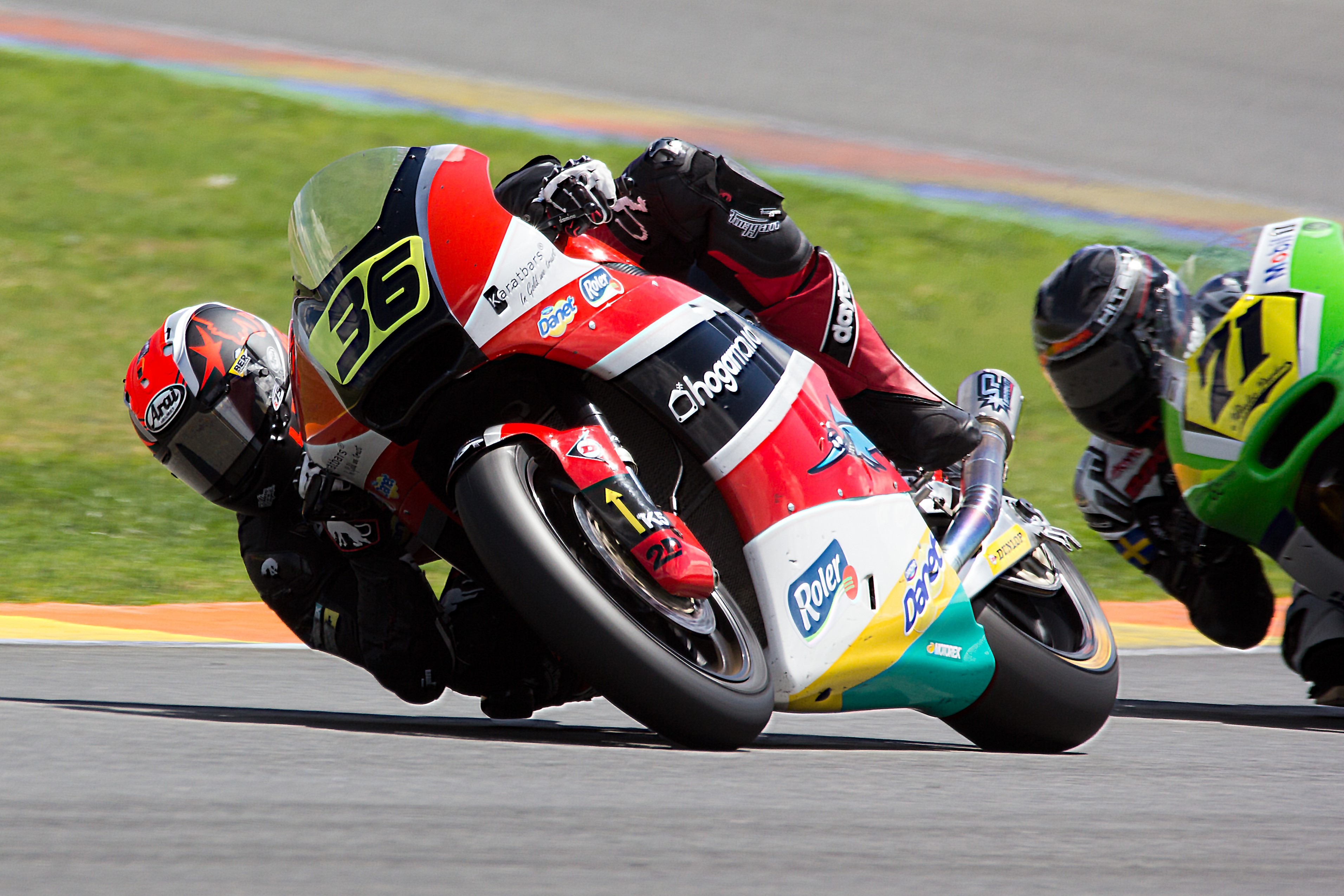 P/C Team AGR; Circuit Ricardo Tormo; Valencia, Spain. Jayson is racing with Team AGR aboard a 2015 Kalex Moto2 motorcycle.